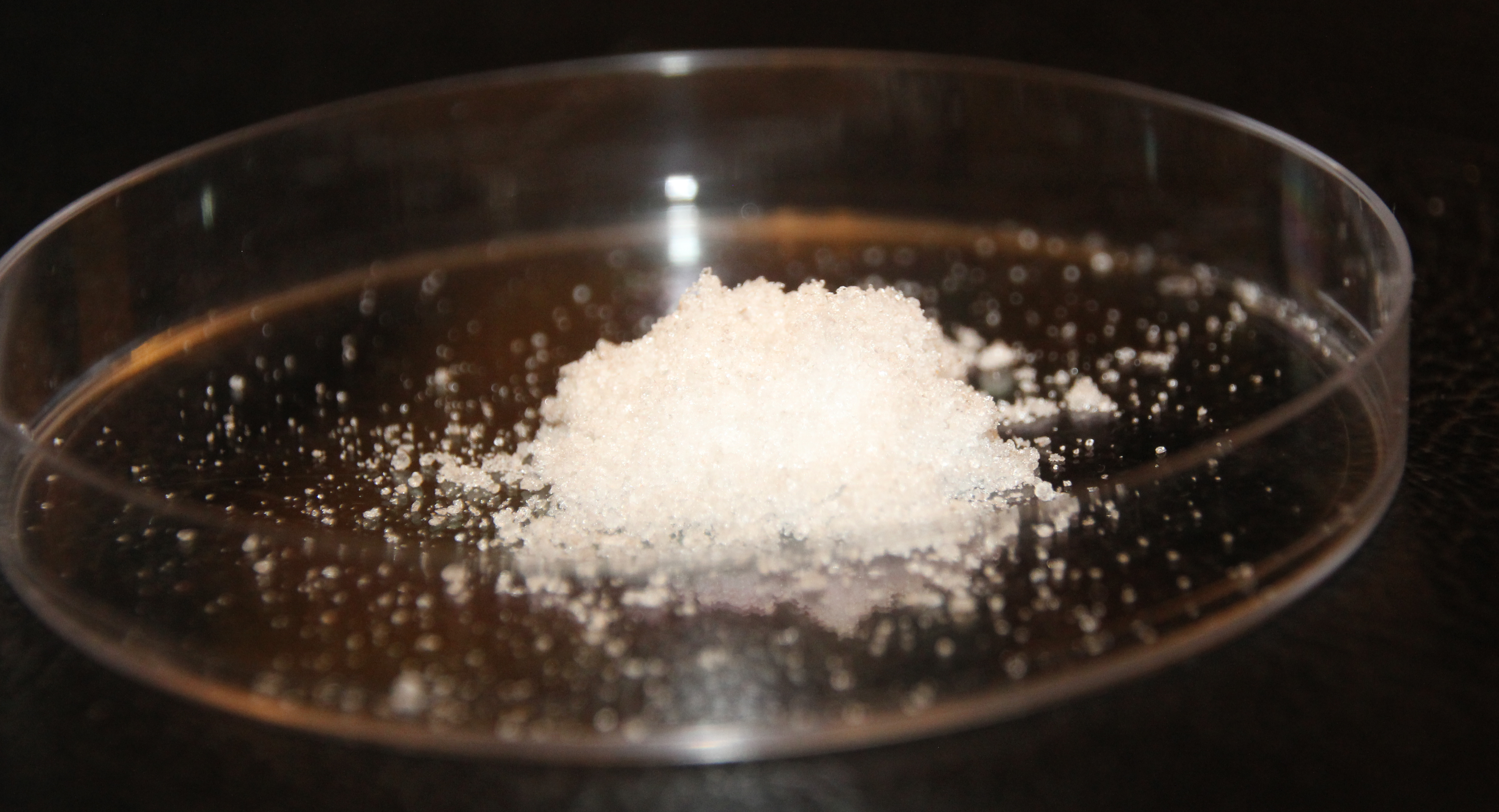 Sample of sulfamic acid